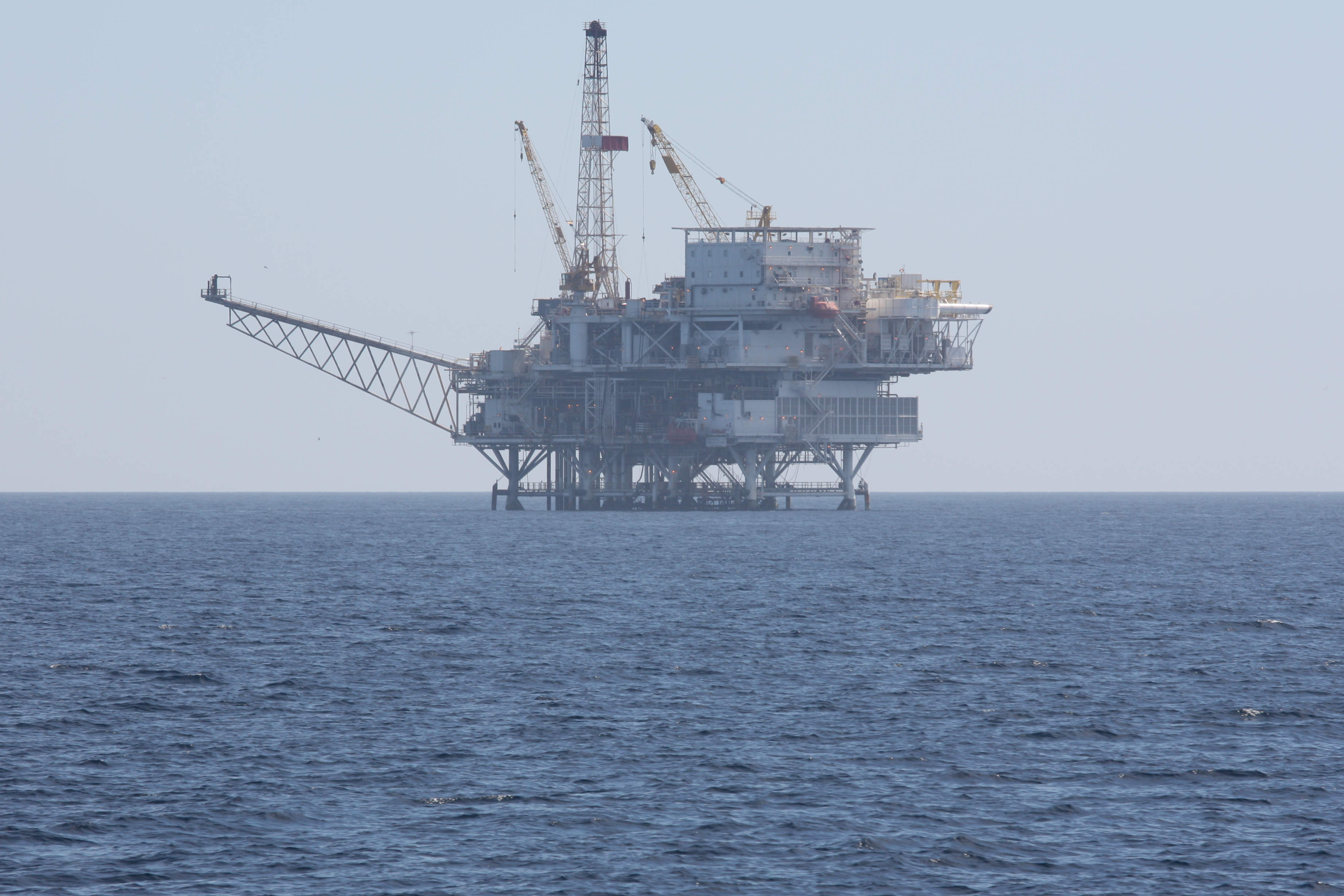 The oil platform Gail is located in 739 feet of water in the Santa Barbara Channel, approximately ten miles offshore. Gail produces from the Sockeye Field for Venoco, Inc.